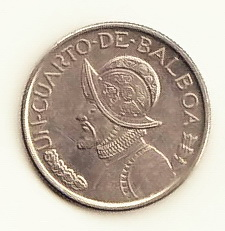 a quarter of Balboa